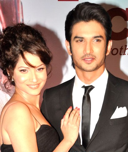 Sushant Singh Rajput with Ankita Lokhande at KAI PO CHE's premiere